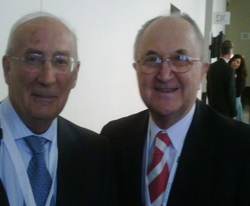 Drs Francis Fontan and Guillermo Kreutzer at AATS meeting 2009. Photo courtesy of Christian Kreutzer, MD.